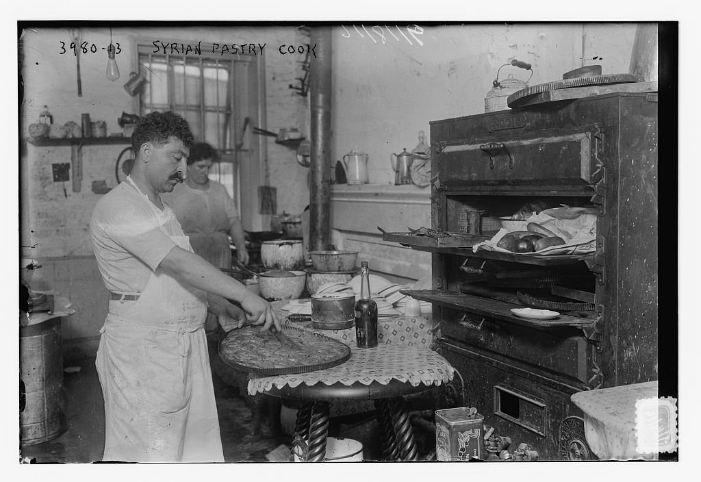 Syrian pastry cook (possibly in Little Syria, Manhattan)